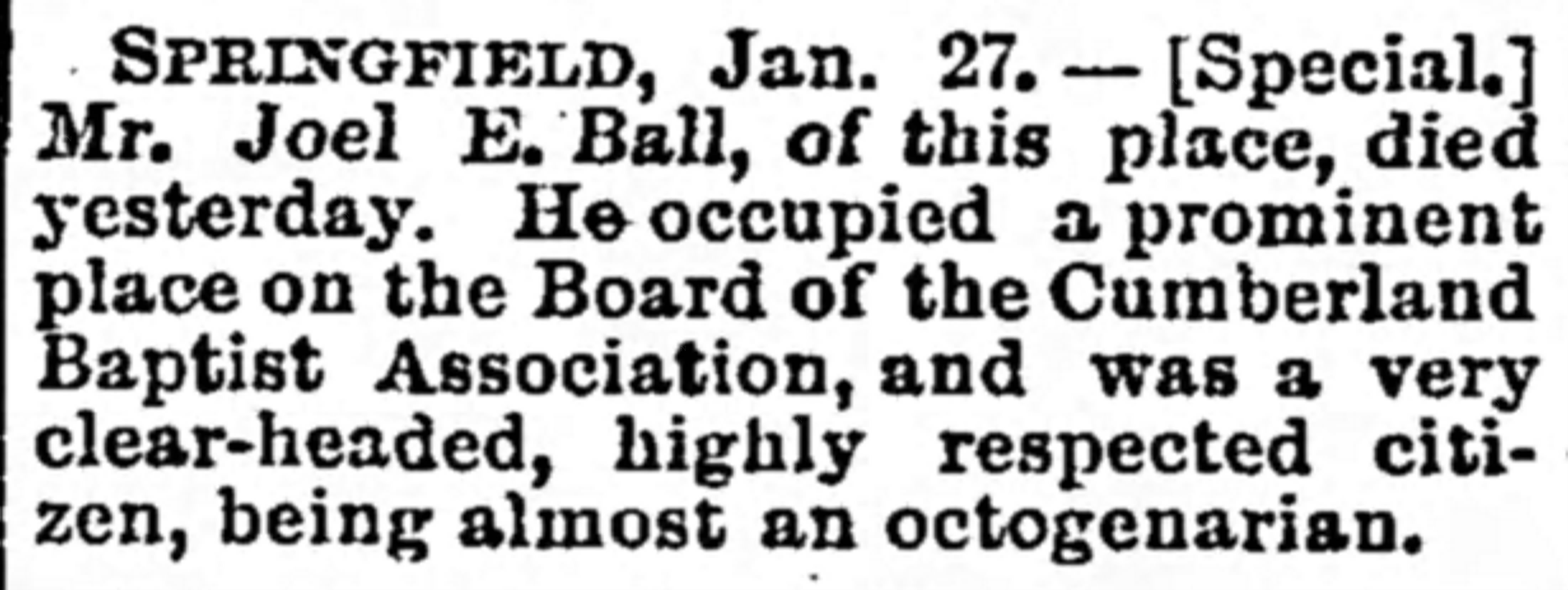 Obituary for Joel Egbert Bell